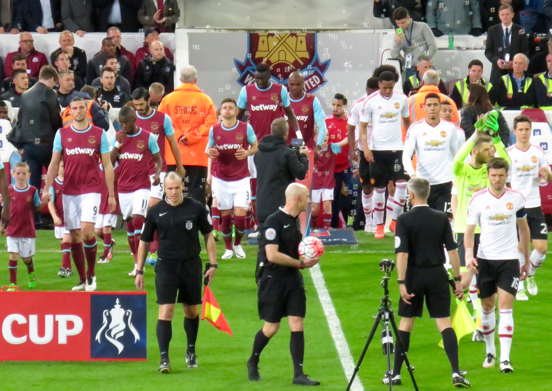 The officials and players of West Ham and Manchester United enter the pitch before their FA Cup match at the Boleyn Ground. Result 1-2